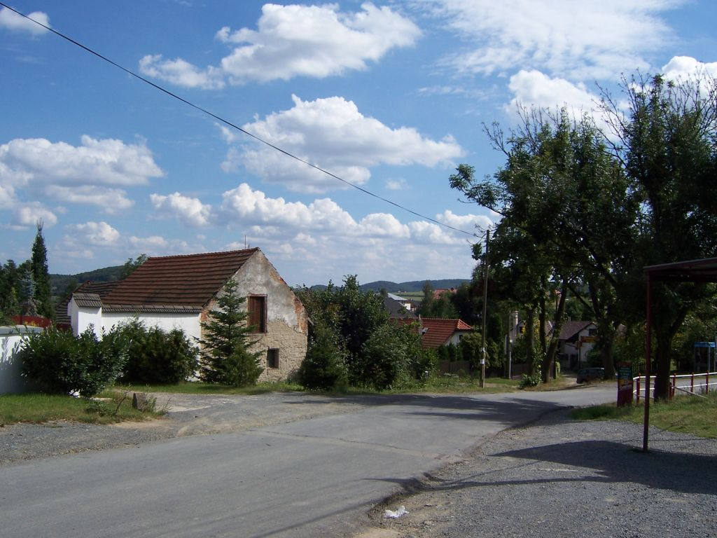 Březová-Oleško, Oleško, center